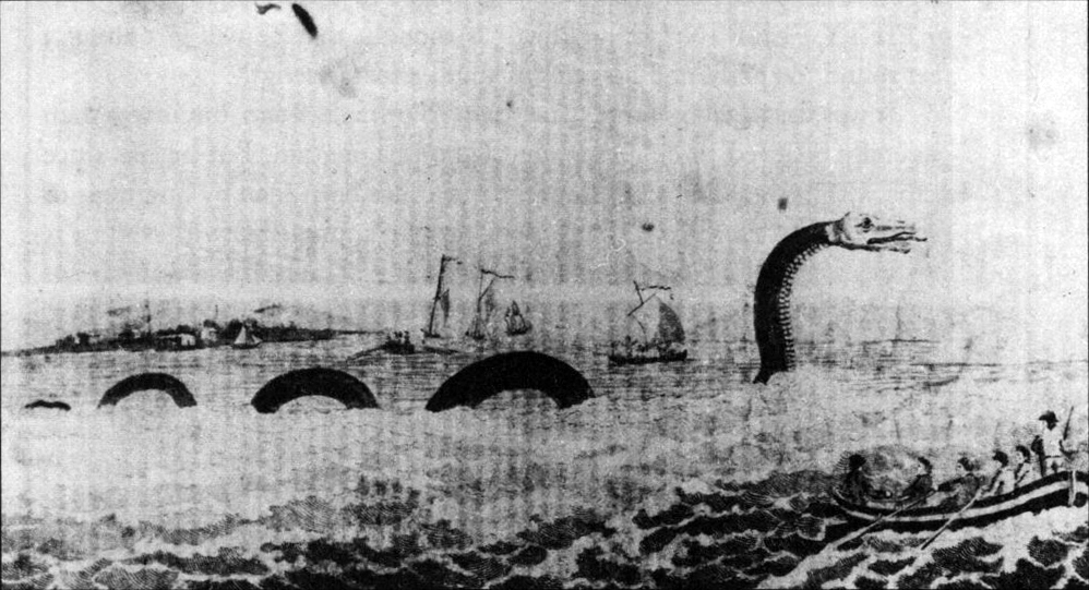 The first American sea serpent, reported from Cape Ann, Massachusetts, in 1639.A contemporary folk music group, the Gloucester Hornpipe and Clog Society, has written and performed a song about the Cape Ann sea serpent, that they call "his snakeship". It was performed in a 2005 WUMB radio interview with the group that will be found at